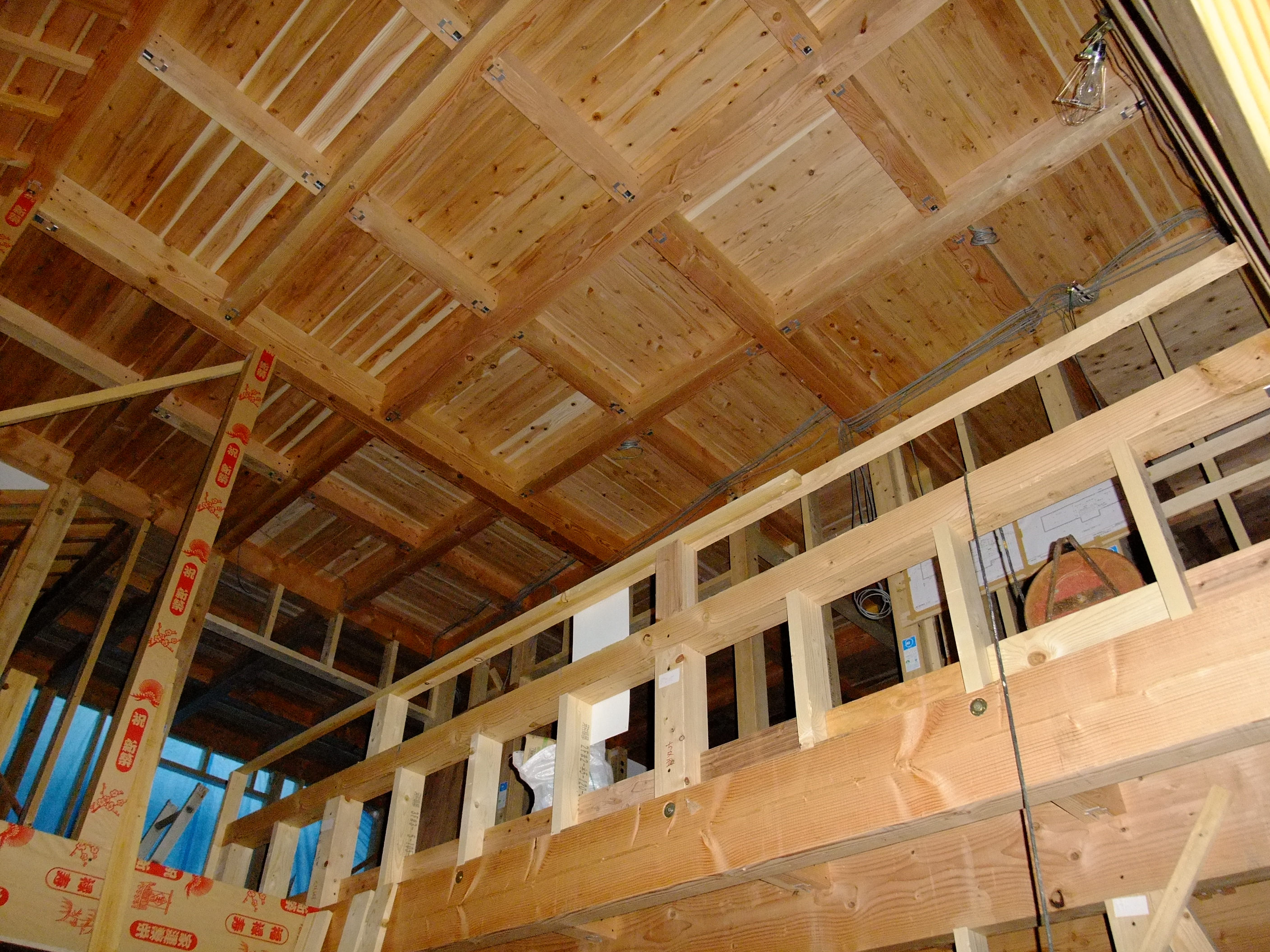 Solid Edged-glued Panel